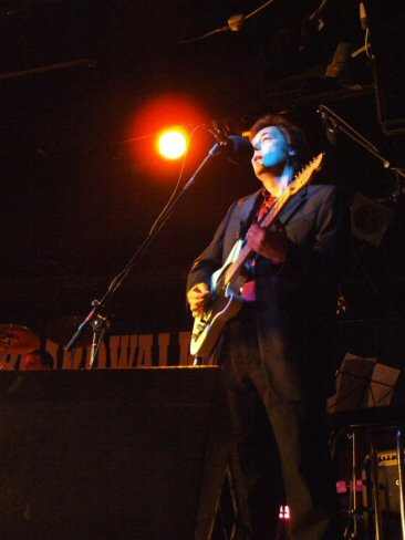 John Hackett live in 2006 on his solo tour ( M Kenyon )